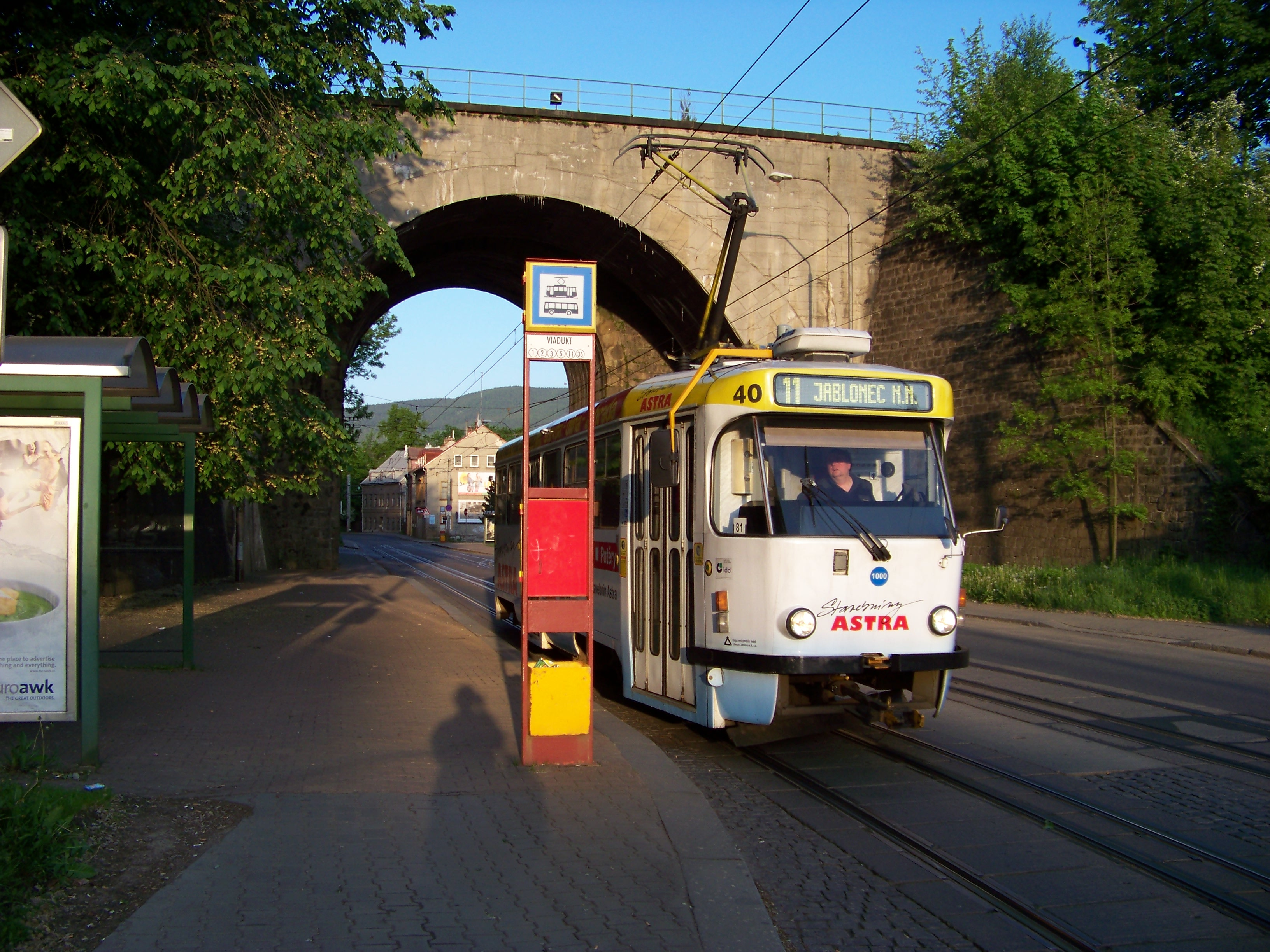 Liberec-Františkov and Jeřáb, Liberec District, Liberec Region, the Czech Republic. Hanychovská street, a railway bridge and a tram.